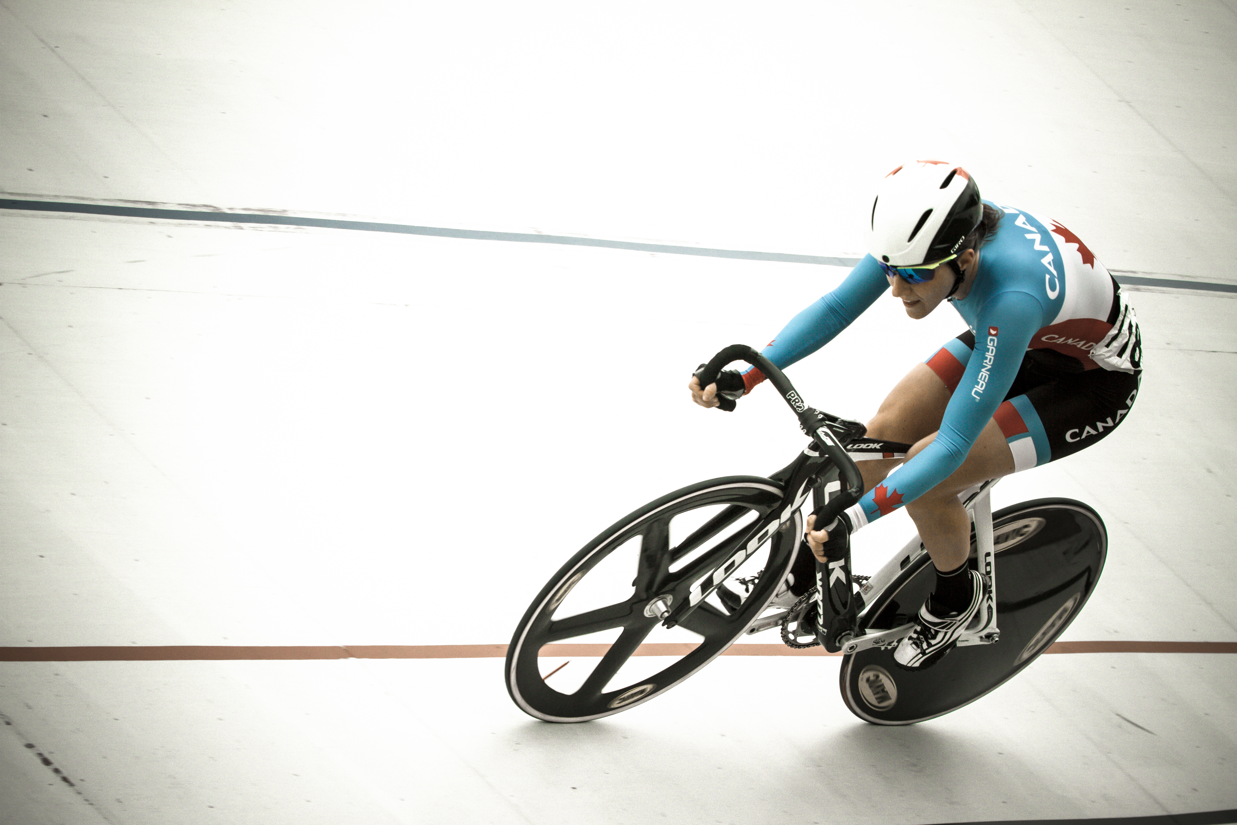 Laura Brown of Canada. Challenge International Sur Piste / Bromont Challenge 2013, at the Centre de Cyclisme de Bromont, Quebec, Canada.